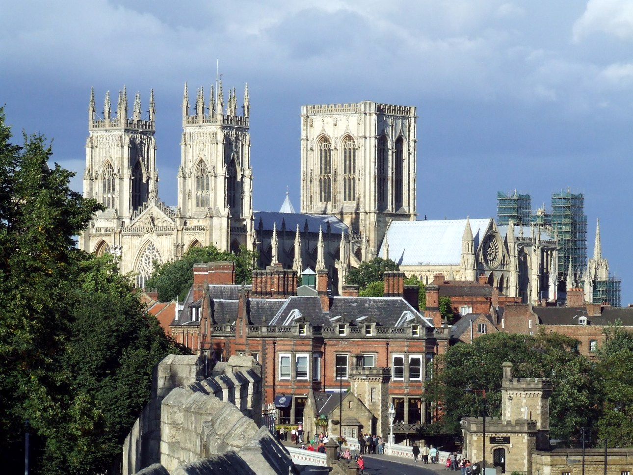 York Minster, view from city walls